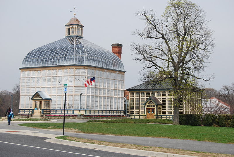 Howard Peters Rawlings Conservatory, Baltimore